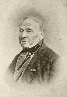 Portrait of Jan David Zocher (1791-1870).